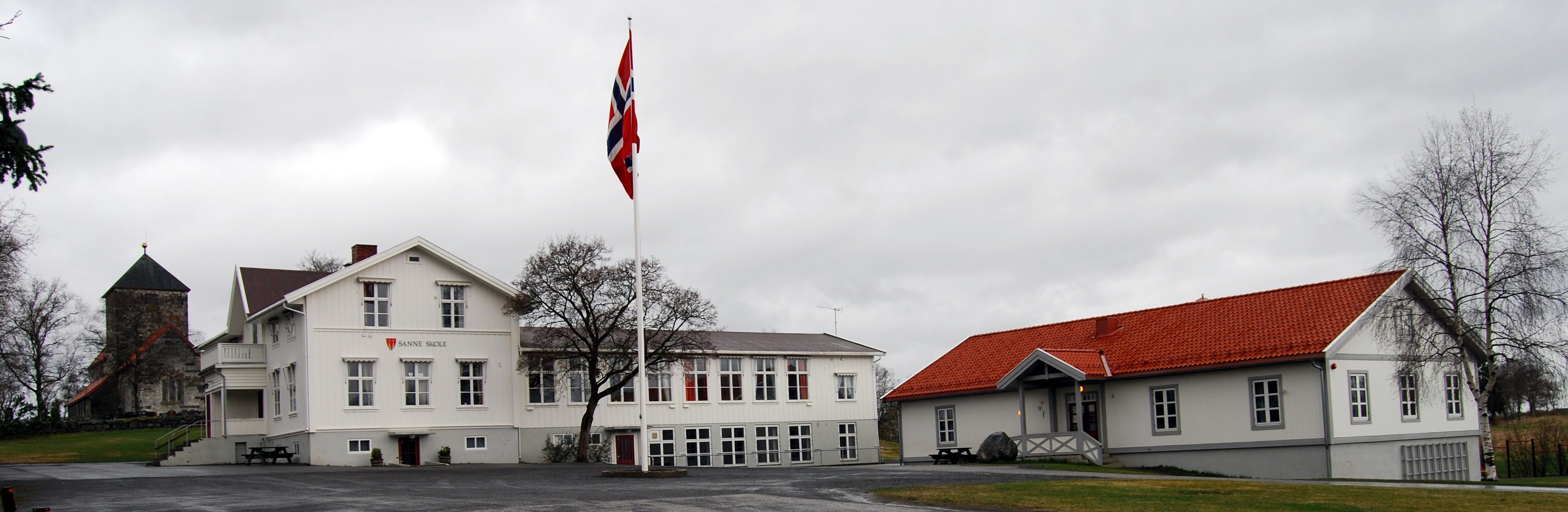 Sanne elementary school, Gran, Oppland, Norway. One of the Sisters churches at Gran in the background